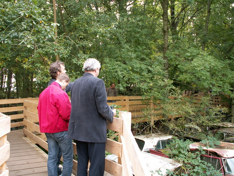 Object at the carjunk in Kaufdorf (Guerbetal) (Switzerland) Cars hidden in the forest.